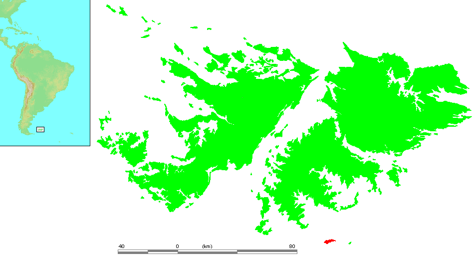 Falkland Islands - Sealion Island.PNG